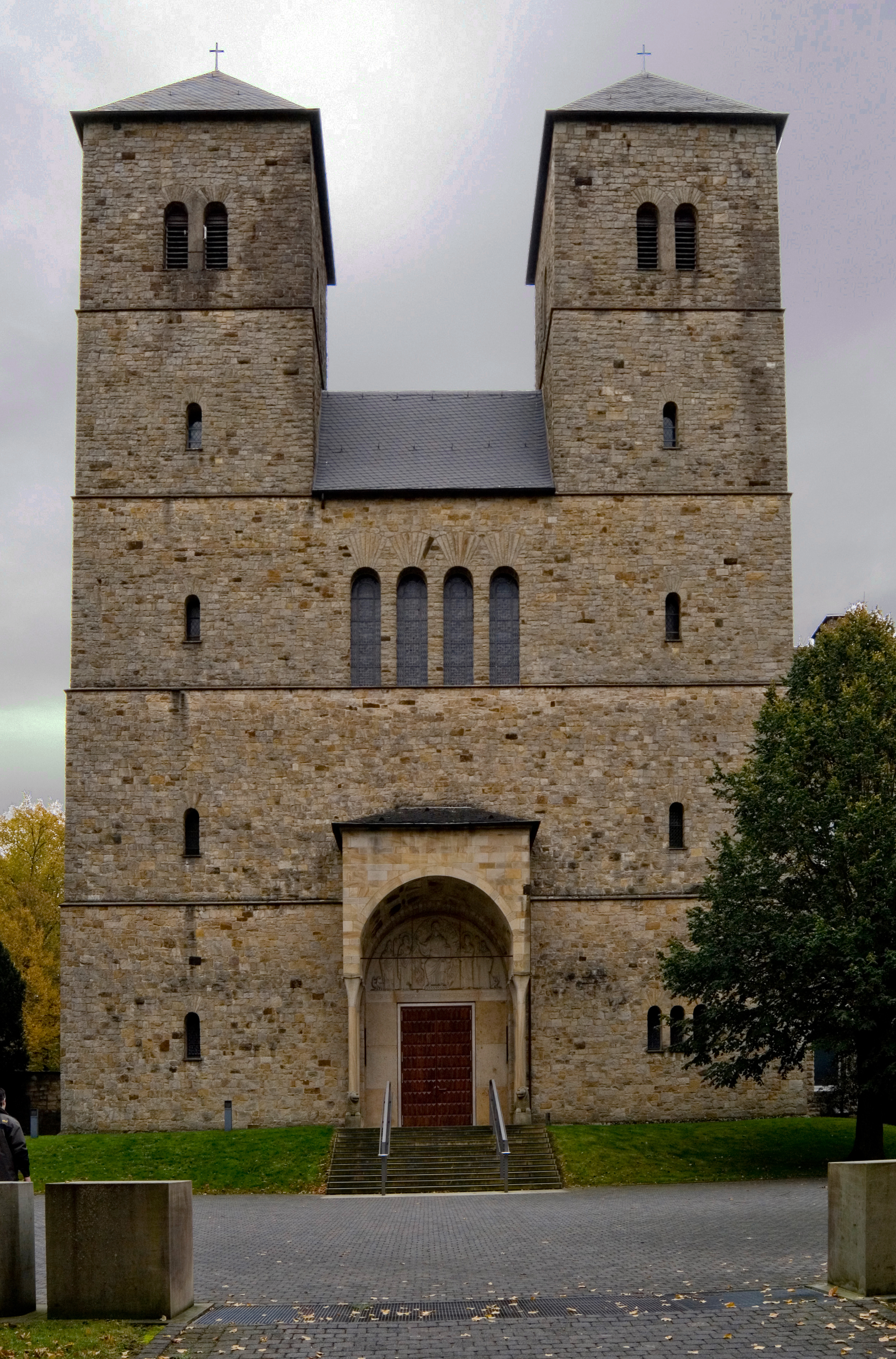 Gerleve Monastery near Billerbeck in North Rhine-Westphalia, Germany This photograph was taken with a Nikon D3000